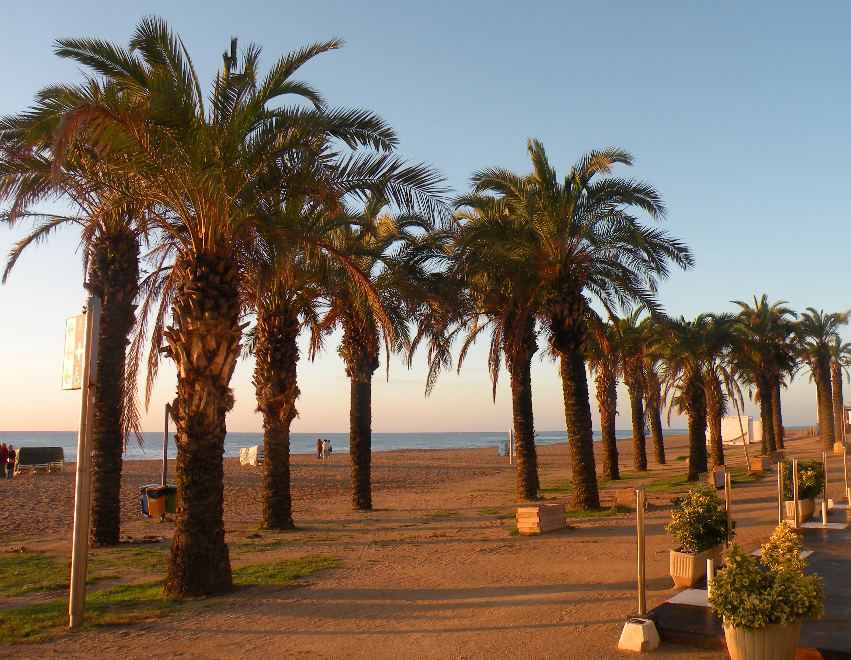 Beach of Sant Feliu de Guíxols in the Costa Brava, Spain